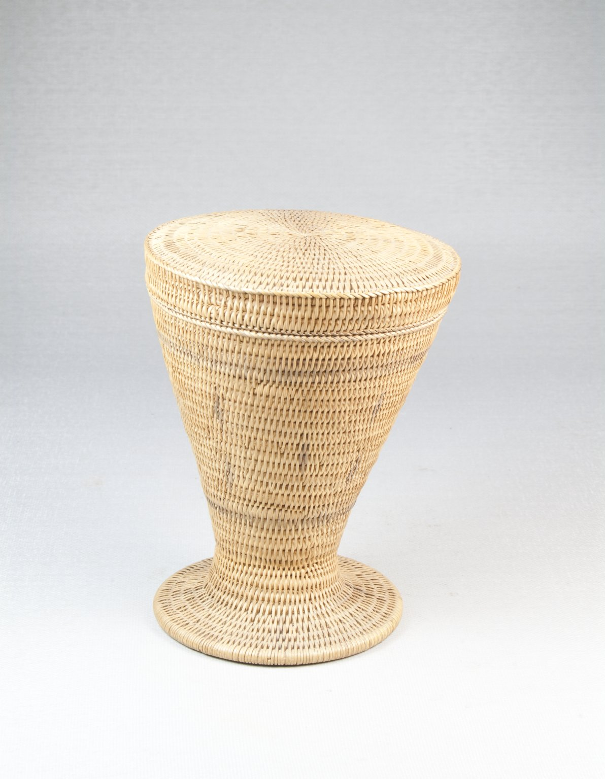 Basket and Lid